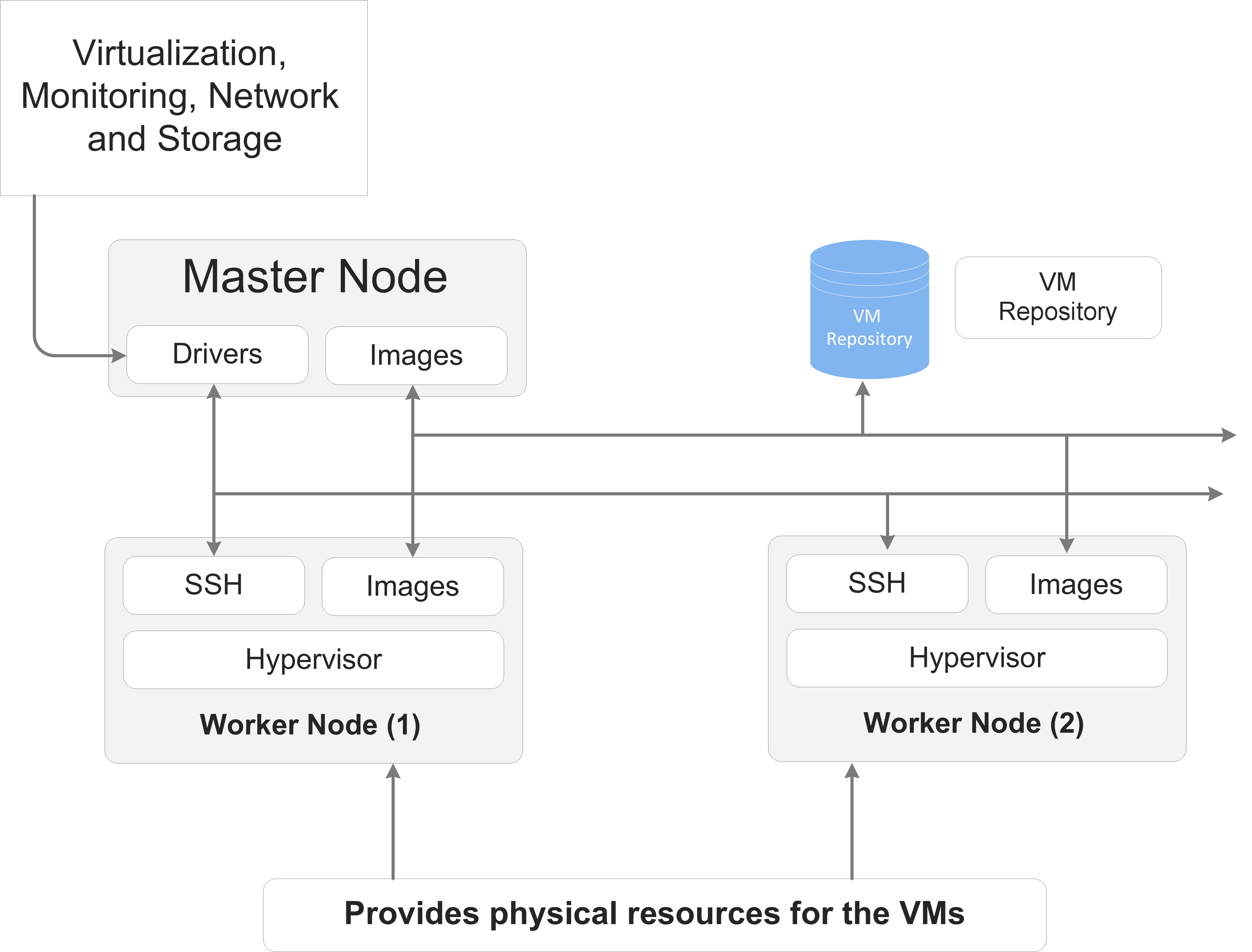 The diagram resembles deployment model of OpenNebula